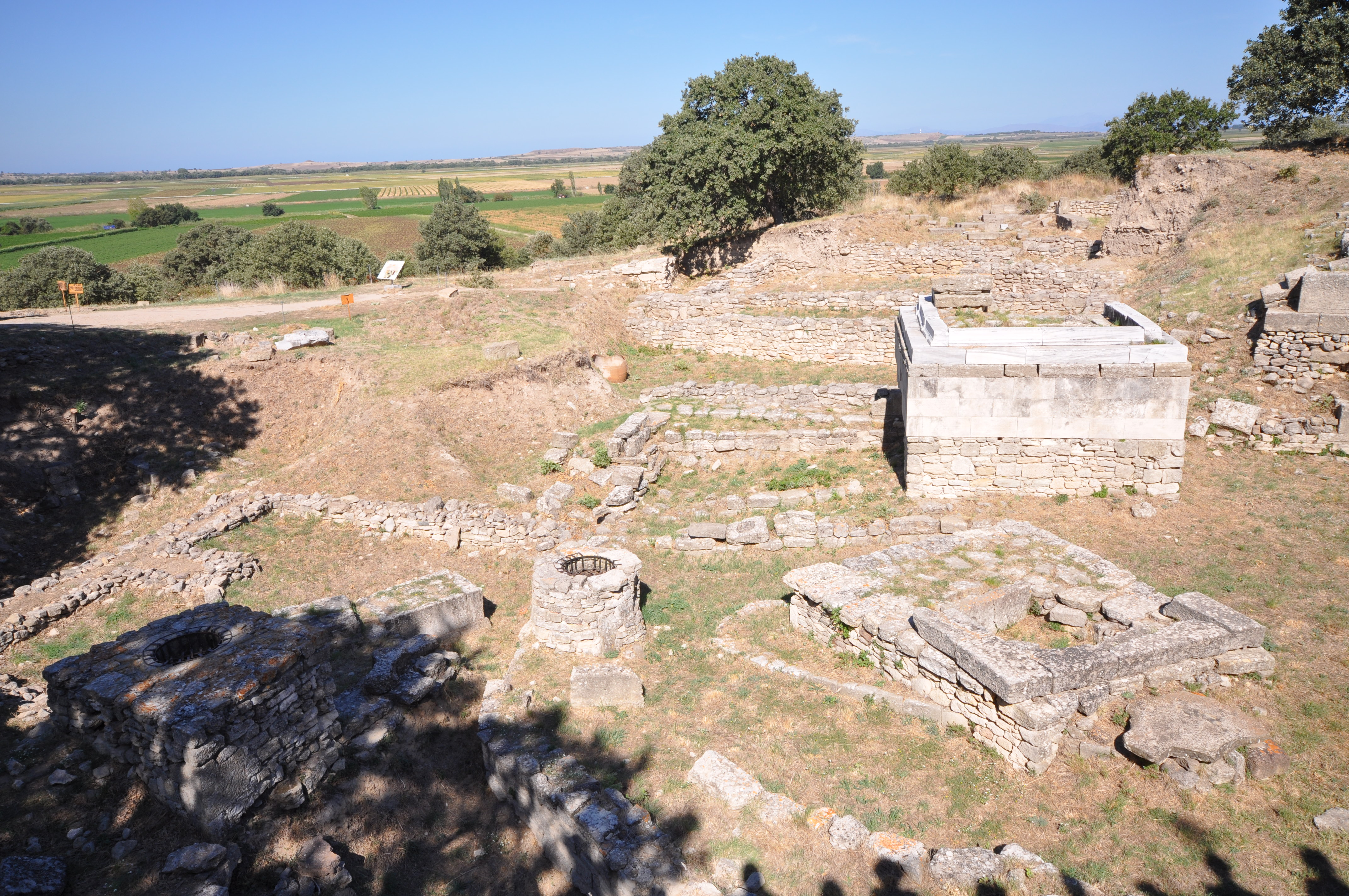 Troy was a city, both factual and legendary, in northwest Anatolia in what is now Turkey, south of the southwest end of the Dardanelles / Hellespont and northwest of Mount Ida. It is best known for being the setting of the Trojan War described in the Greek Epic Cycle and especially in the Iliad, one of the two epic poems attributed to Homer. Metrical evidence from the Iliad and the Odyssey seems to show that the name Ἴλιον (Ilion) formerly began with a digamma: Ϝίλιον (Wilion). This was later supported by the Hittite form Wilusa. A new city called Ilium was founded on the site in the reign of the Roman Emperor Augustus. It flourished until the establishment of Constantinople and declined gradually during the Byzantine era. In 1865, English archaeologist Frank Calvert excavated trial trenches in a field he had bought from a local farmer at Hisarlık, and in 1868, Heinrich Schliemann, wealthy German businessman and archaeologist, also began excavating in the area after a chance meeting with Calvert in Çanakkale. These excavations revealed several cities built in succession. Schliemann was at first skeptical about the identification of Hissarlik with Troy, but was persuaded by Calvert and took over Calvert's excavations on the eastern half of the Hissarlik site, which was on Calvert's property. Troy VII has been identified with the Hittite Wilusa, the probable origin of the Greek Ἴλιον, and is generally (but not conclusively) identified with Homeric Troy. Today, the hill at Hisarlik has given its name to a small village near the ruins, supporting the tourist trade visiting the Troia archaeological site. It lies within the province of Çanakkale, some 30 km south-west of the provincial capital, also called Çanakkale. The nearest village is Tevfikiye. The map here shows the adapted Scamander estuary with Ilium a little way inland across the Homeric plain. Troia was added to the UNESCO World Heritage list in 1998